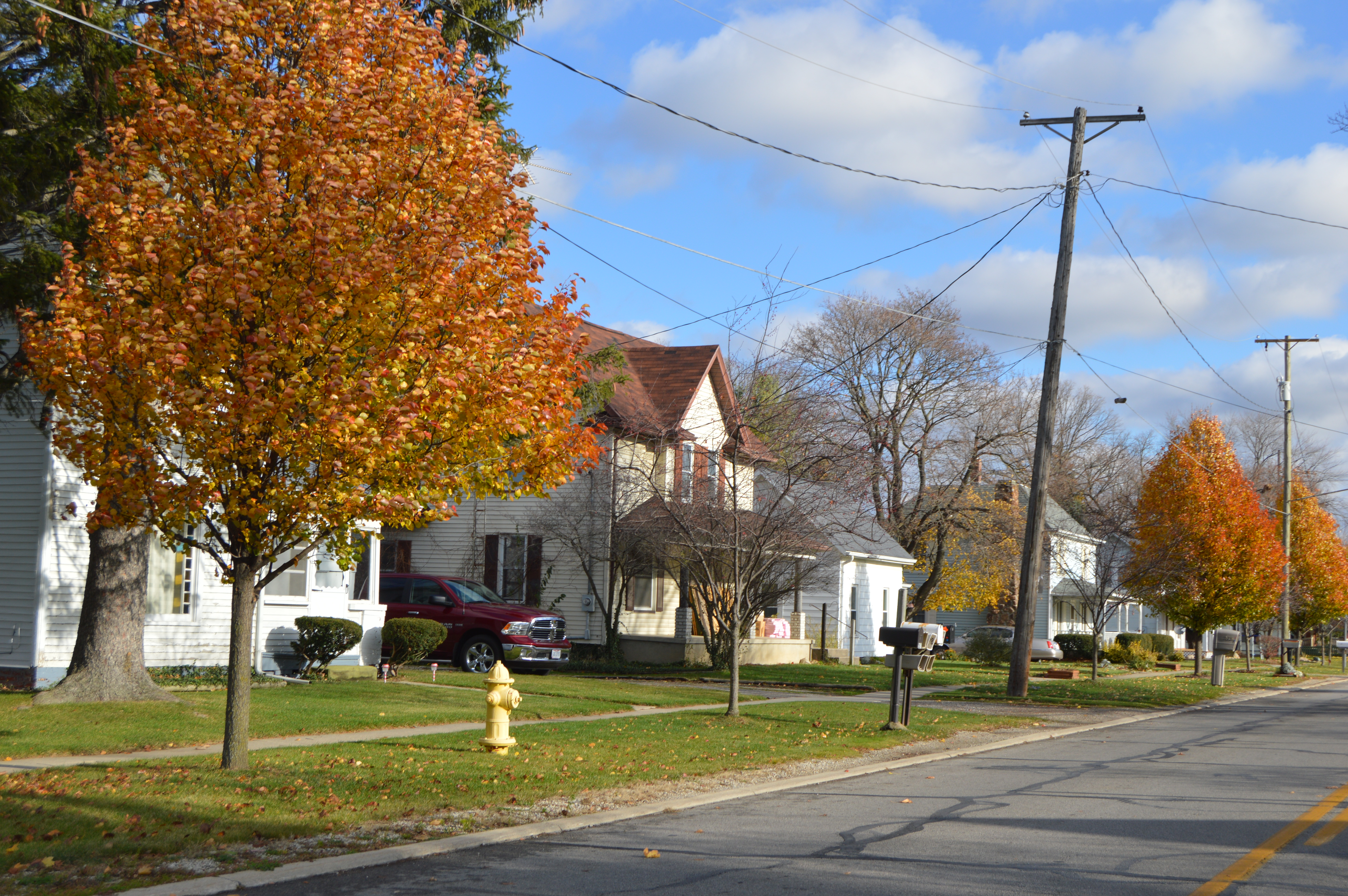 Houses at the western end of the northern side of Maple Street (State Route 64) in Metamora, Ohio, United States.